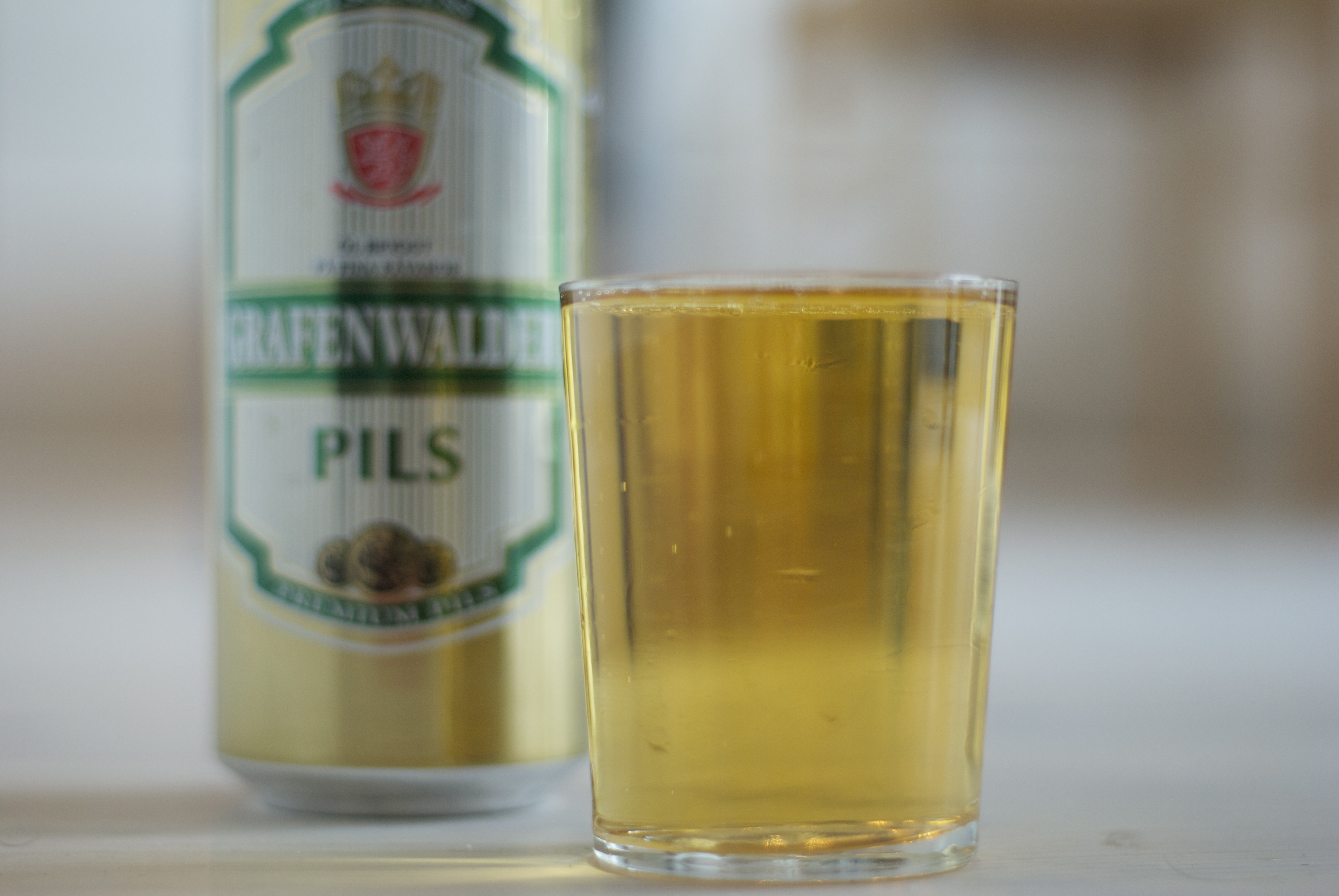 Grafenwalder beer